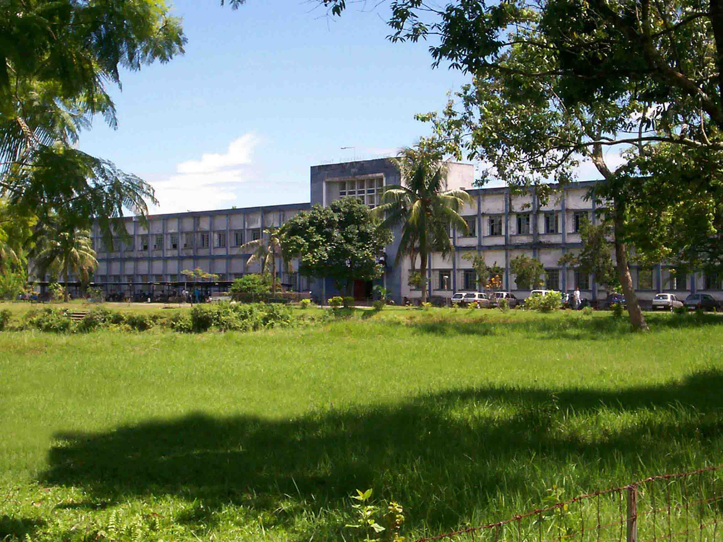 Jorhat Engineering College, Jorhat, Assam